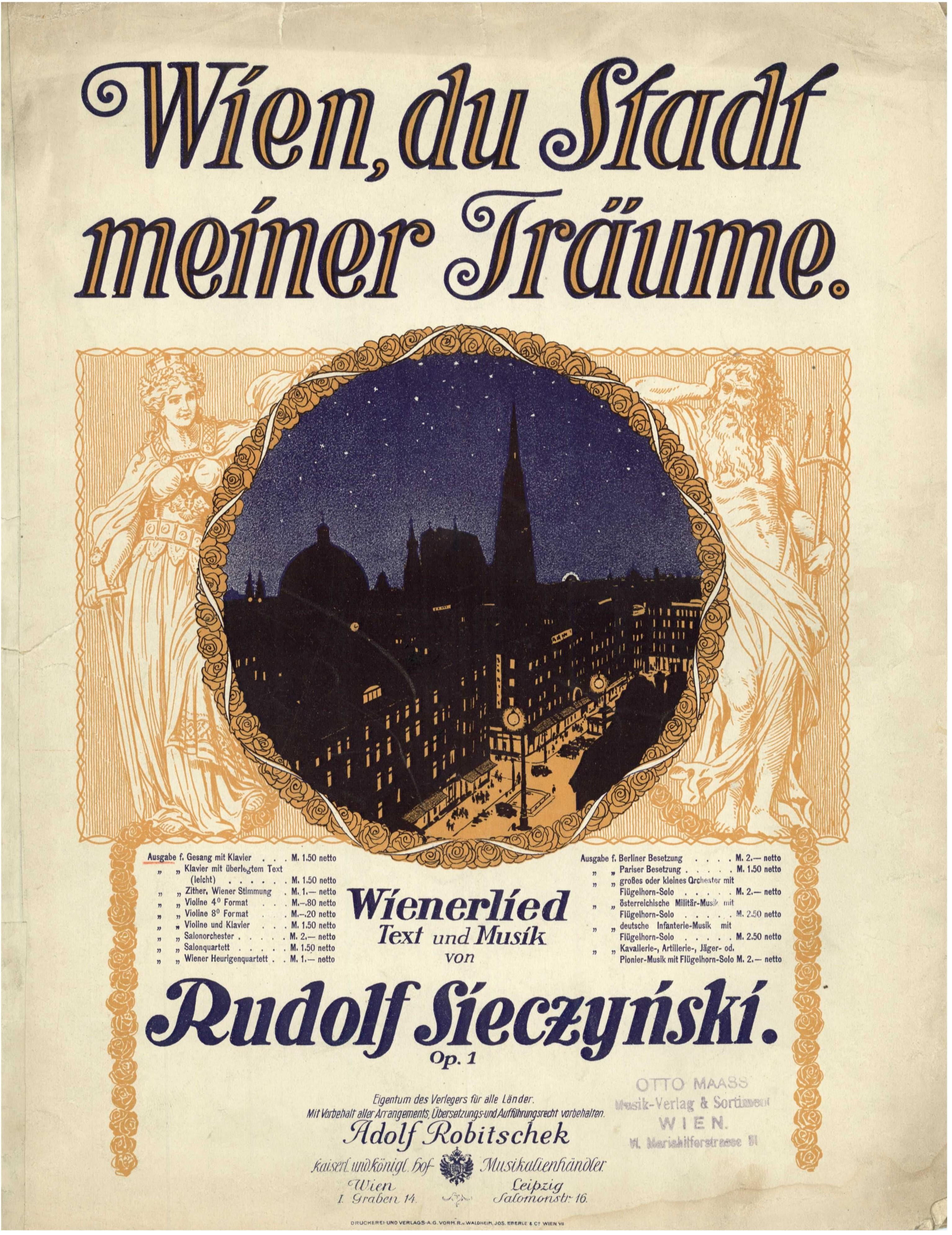 "Vienna City of my Dreams" (Rudolf Sieczyński, 1879-1952), music of sheet cover. Publisher Adolf Robitschek, Vienna.